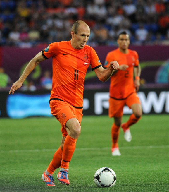 UEFA Euro 2012 match between Netherlands and Denmark that took place in Kharkiv. Final result was 0:1 (Krohn-Delhi)